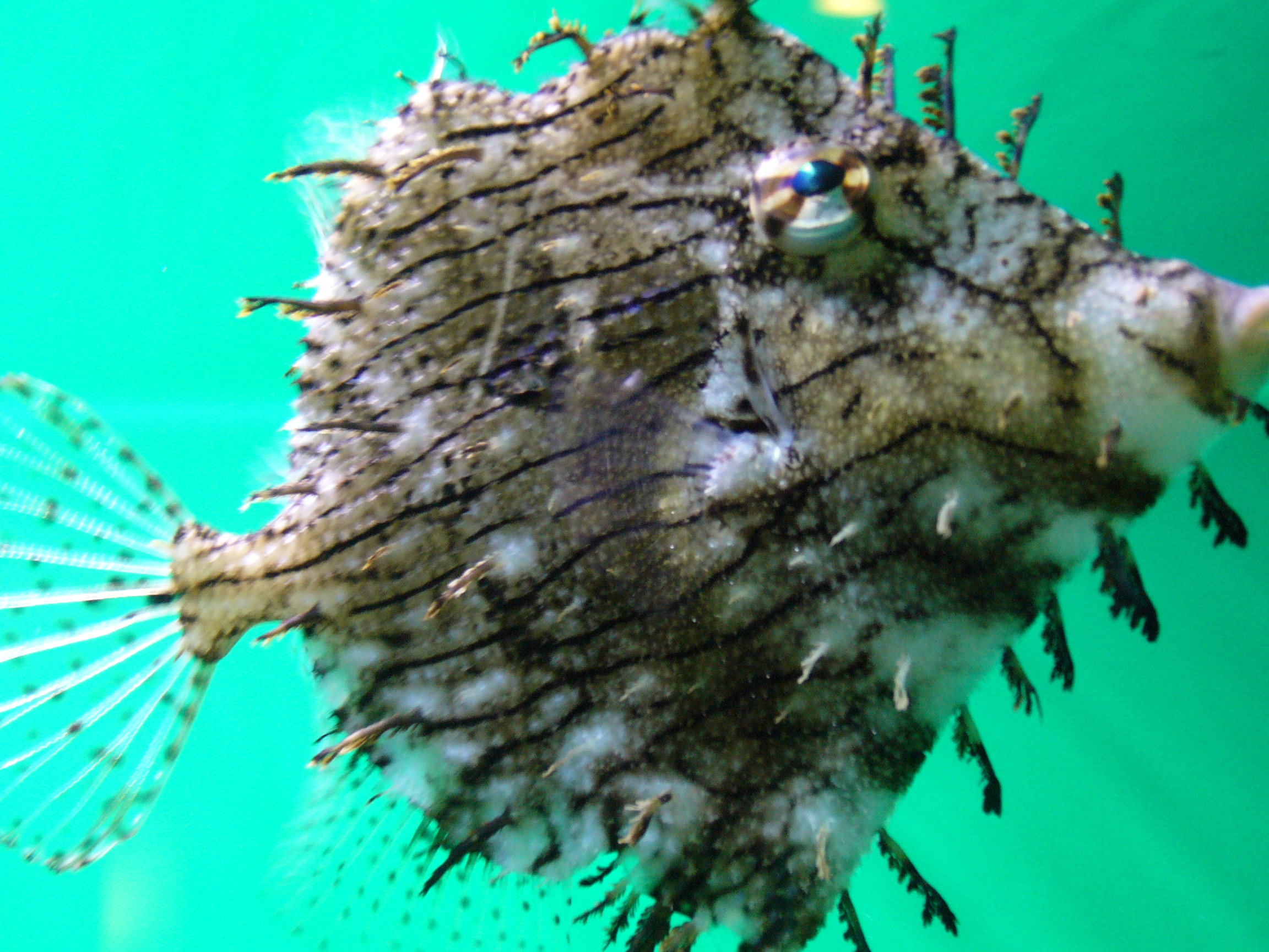 Chaetodermis penicilligerus in Sala Humboldt of Aquarium Finisterrae (House of the Fishes), in Corunna, Galicia, Spain.